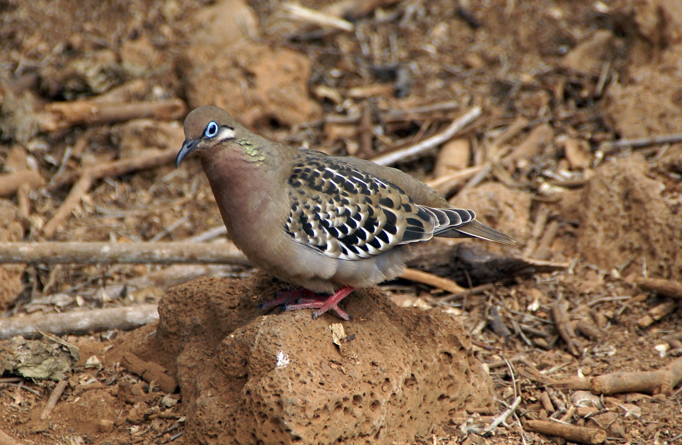 Galápagos Dove (Zenaida galapagoensis) on Santa Cruz, Galapagos Islands.